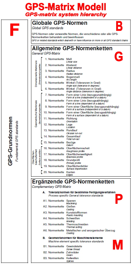 GPS-Matrix Modell